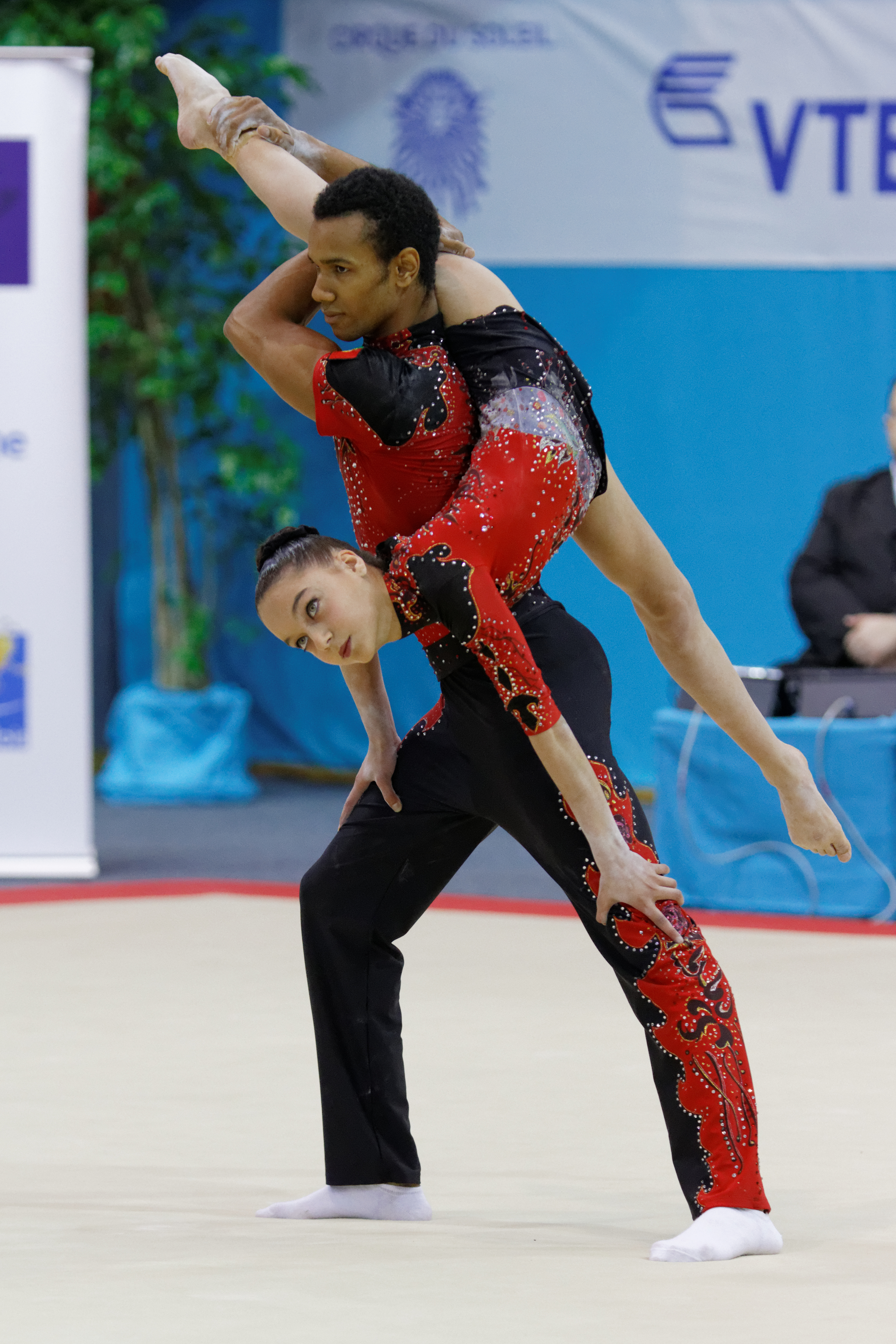 2014 Acrobatic Gymnastics World Championships, 10th-12 July, Levallois-Perret, France. Qualifications: mixed pair. Portugal.